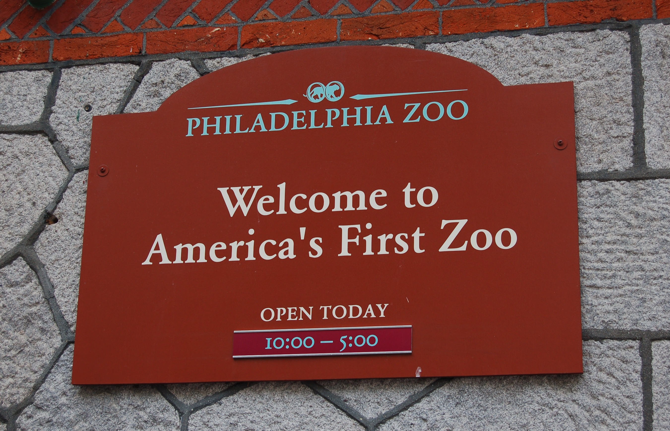 Picture of the Philadelphia Zoo's welcome sign at the entrance to the zoo.